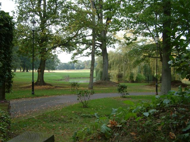 Agates Meadow. Agates Meadow - A private house, with parkland.